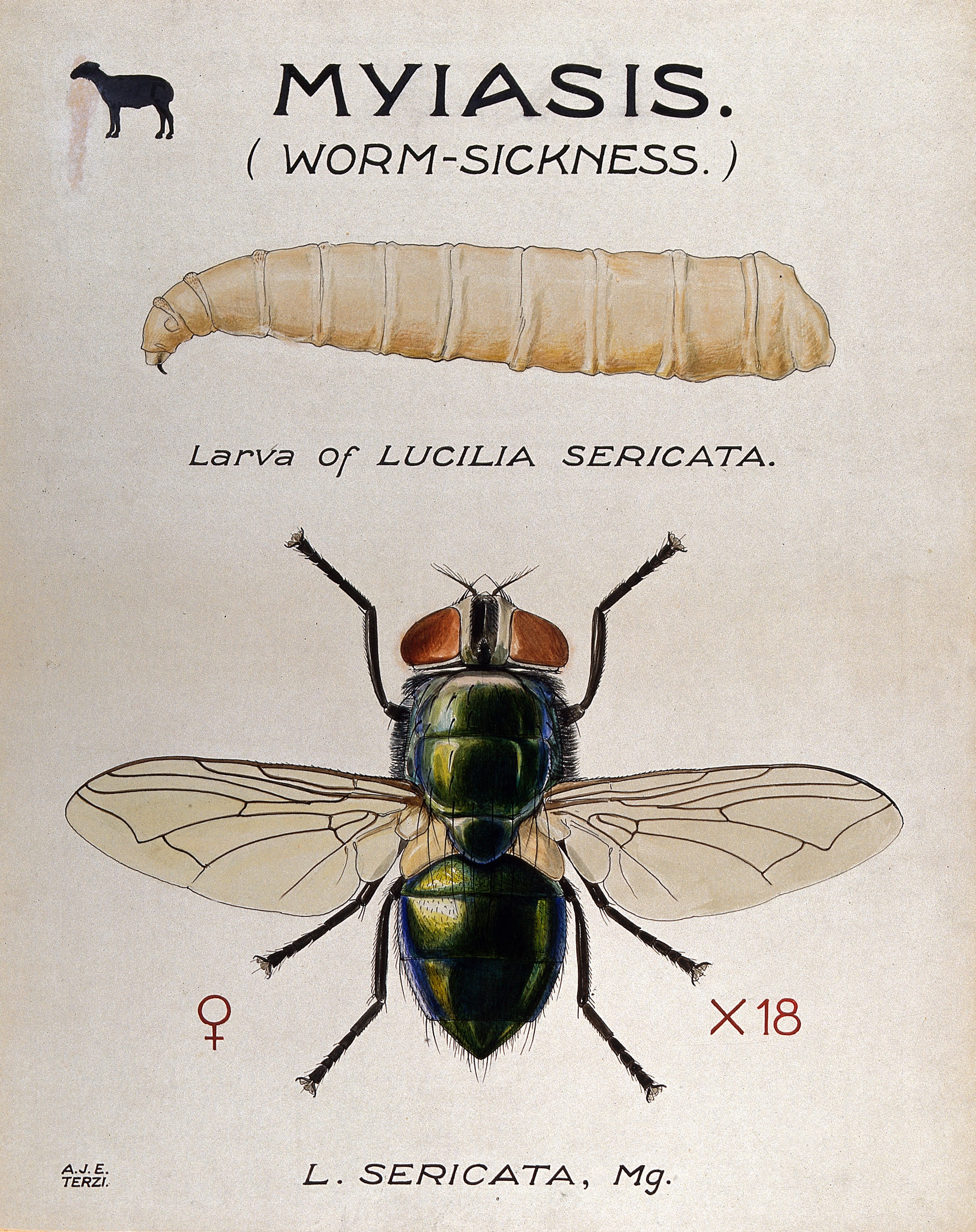 The larva and fly of a greenbottle (Lucilia sericata). Coloured drawing by A.J.E. Terzi. Iconographic Collections Keywords: Amedeo John Engel Terzi